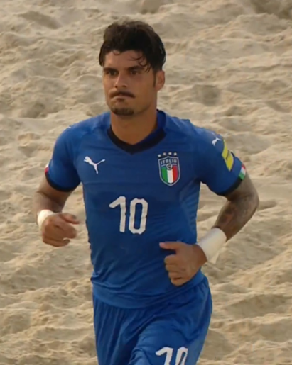 Gabriele Gori, Italian beach soccer player at the 2019 FIFA Beach Soccer World Cup qualifiers.